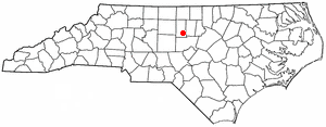 Category:North Carolina Dot Maps